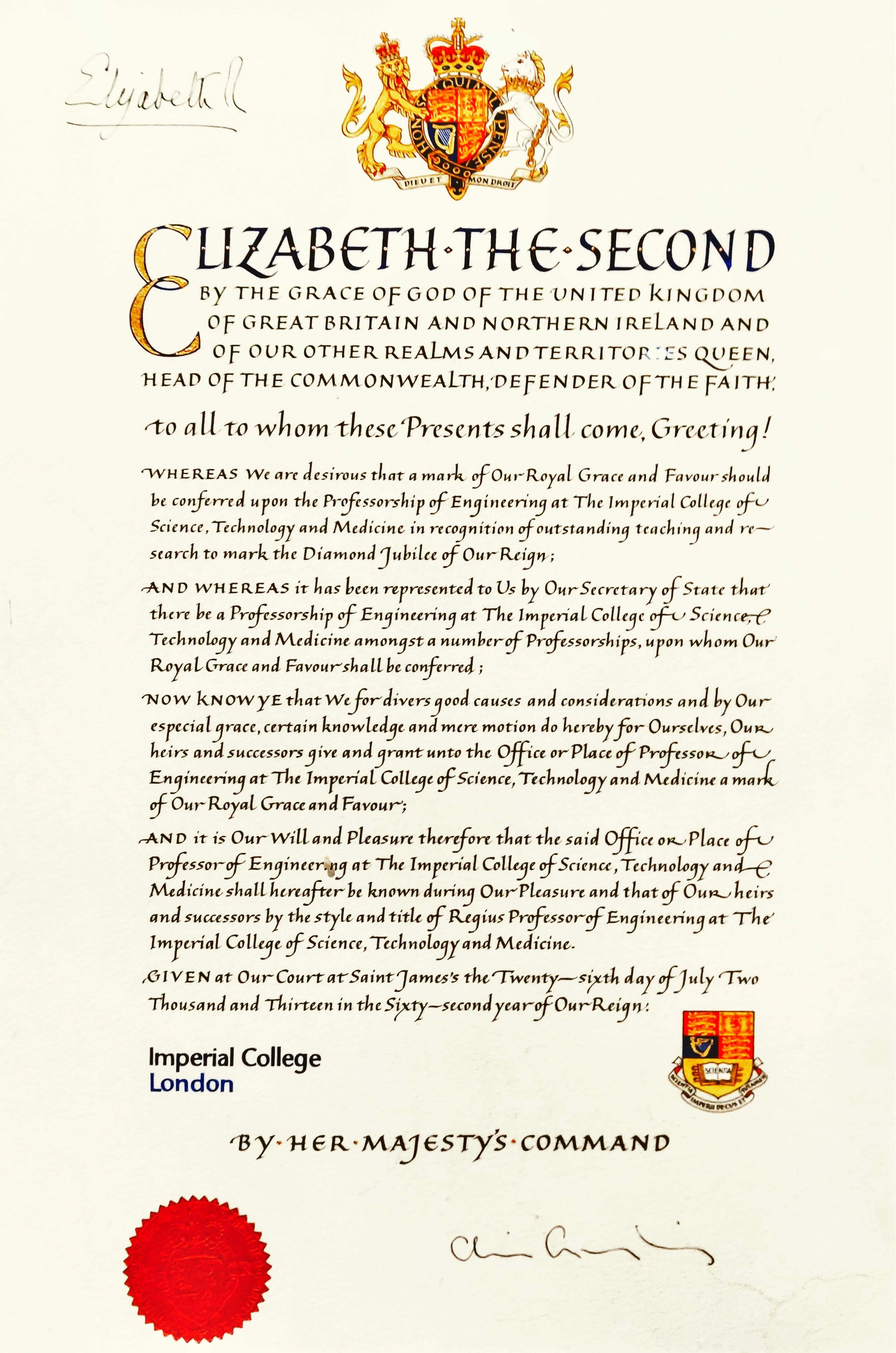 The official proclamation of the royal warrant for the founding of the Regius Professor of Engineering at Imperial College London. The warrant was signed in 2013, and currently (as of December 2019) is displayed in the entrance hall of the EEE building